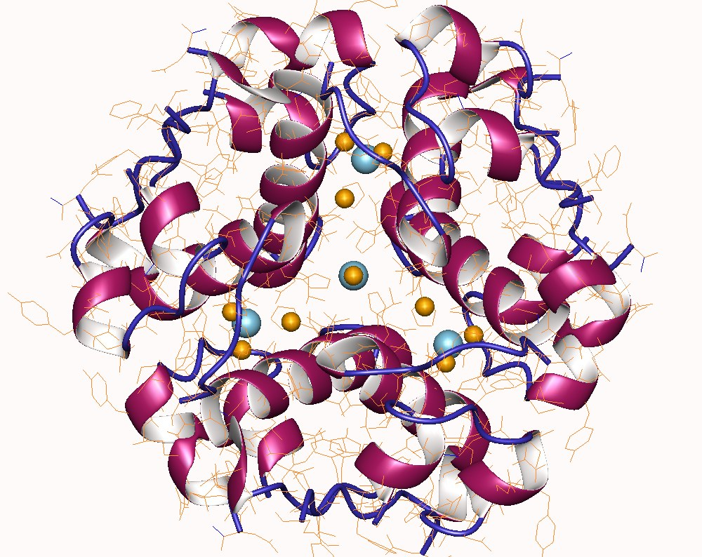 Insulin hexamer + 4 Zn (l.blue) + 10 Cl (gold), Human